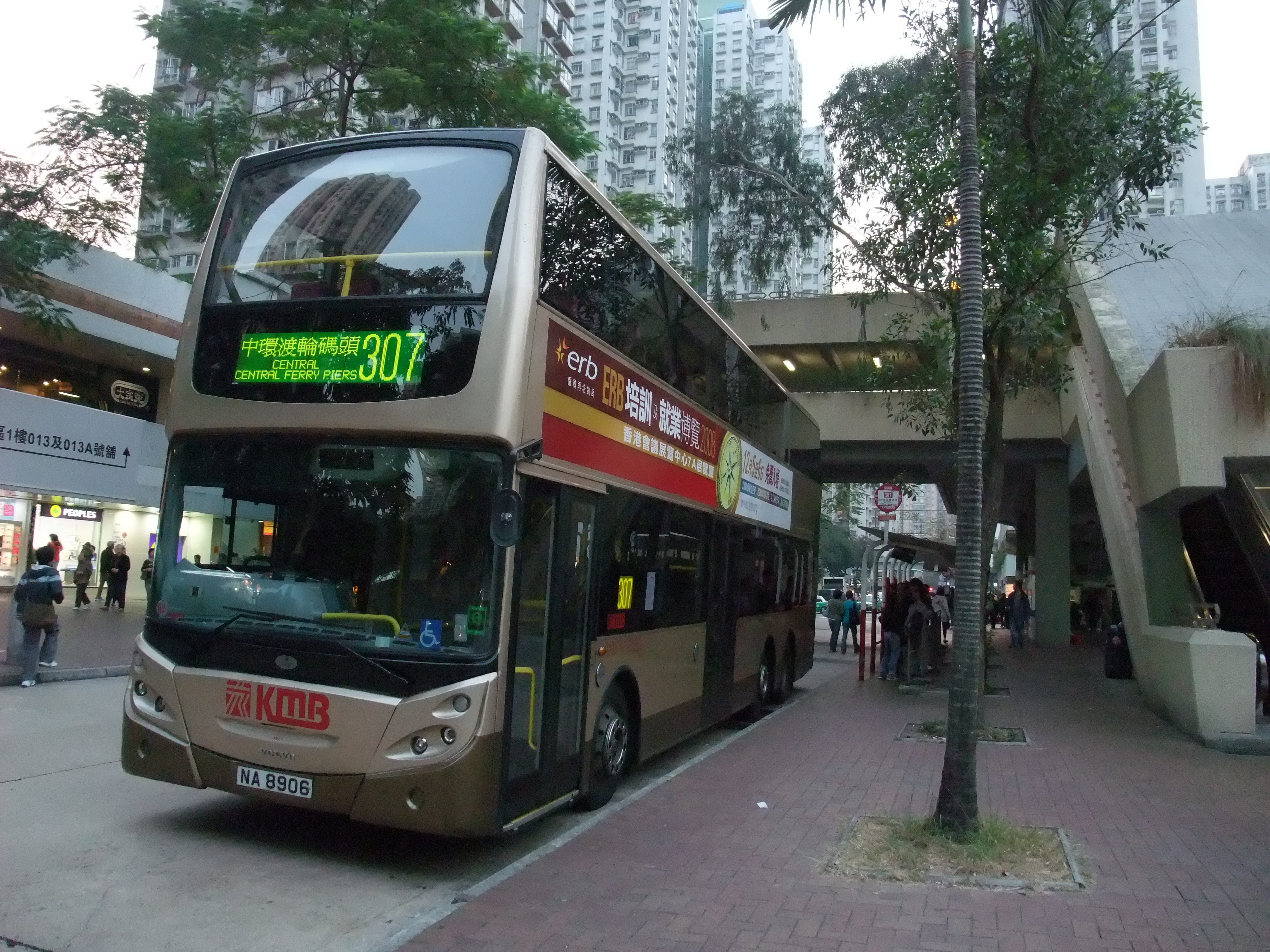 Photo of KMB Route 307